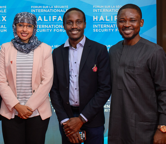 2017 Halifax International Security Forum Participants (L-R): Boniface Mwangi, Imad Mesdoua, Fauziya Ali, Tolu Ogunlesi, Japheth Omojuwa